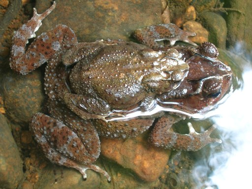 Bufo parietalis in amplexus Photograph by L. Shyamal, Wynaad, 2006